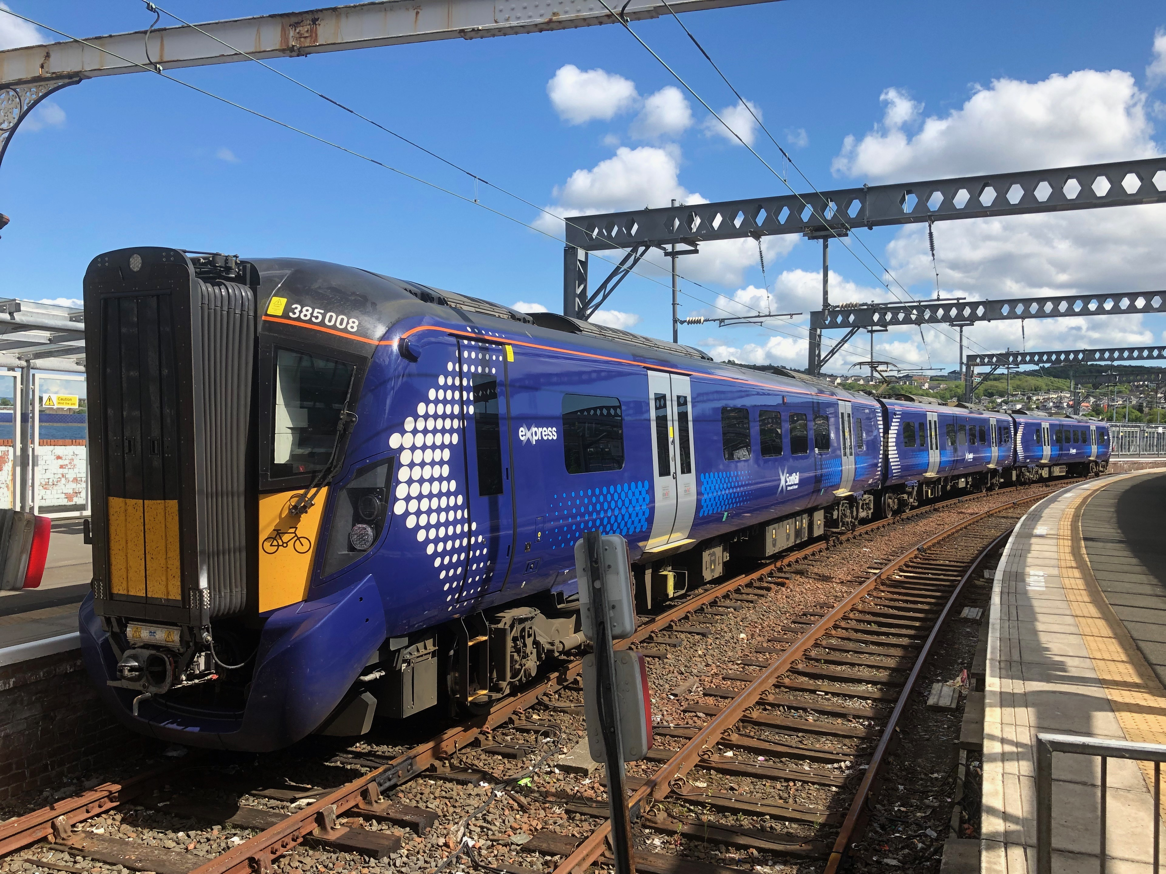 British Rail Class 385 at platform 1 of Gourock railway station, nine days after coming into service on the Inverclyde Line on 19 May 2019, seen from behind the station's buffer stop.